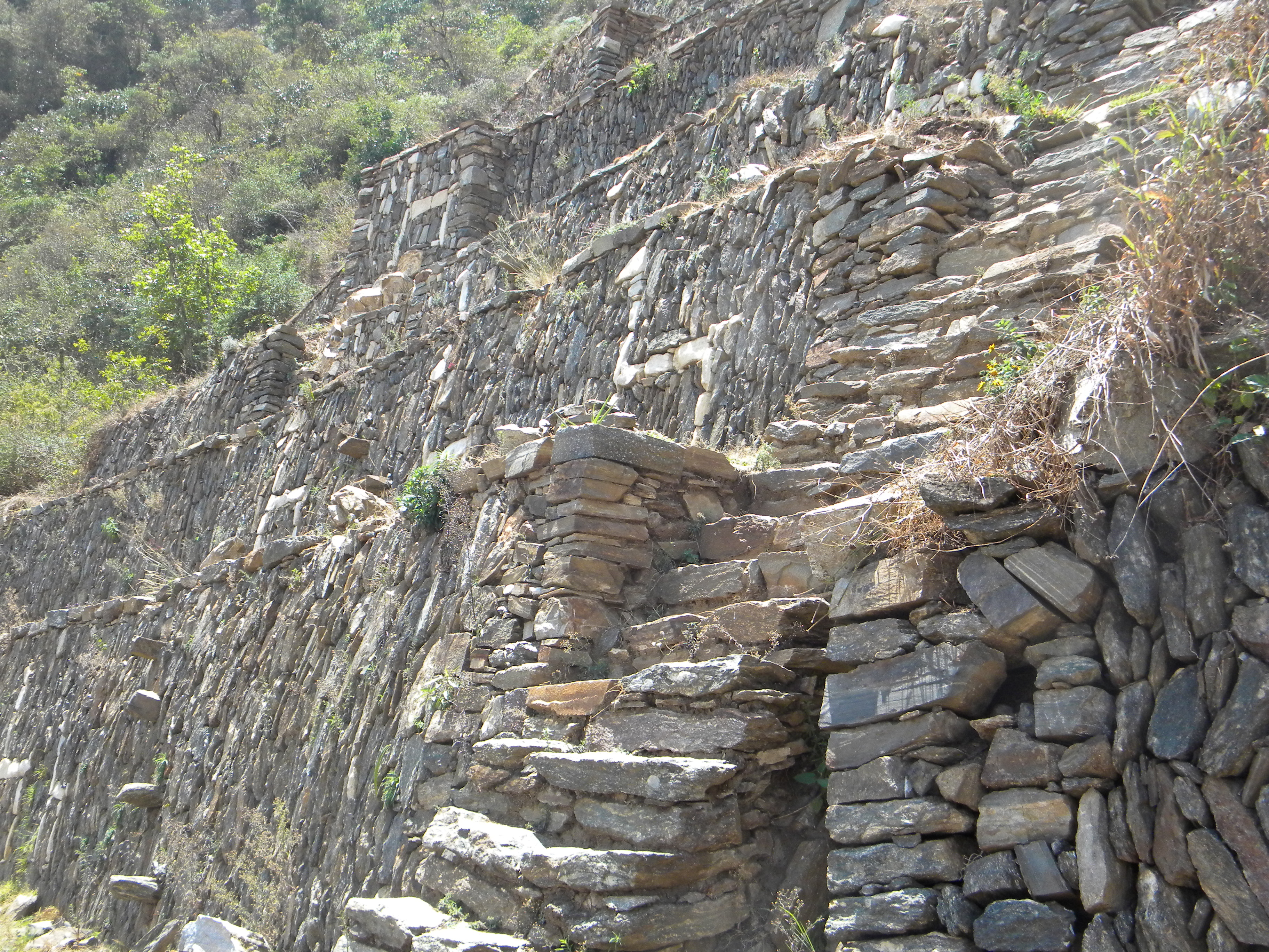 llamas sector of Choquequirao